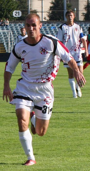 Yevhen Pichkur, midfielder of FC Volyn Lutsk